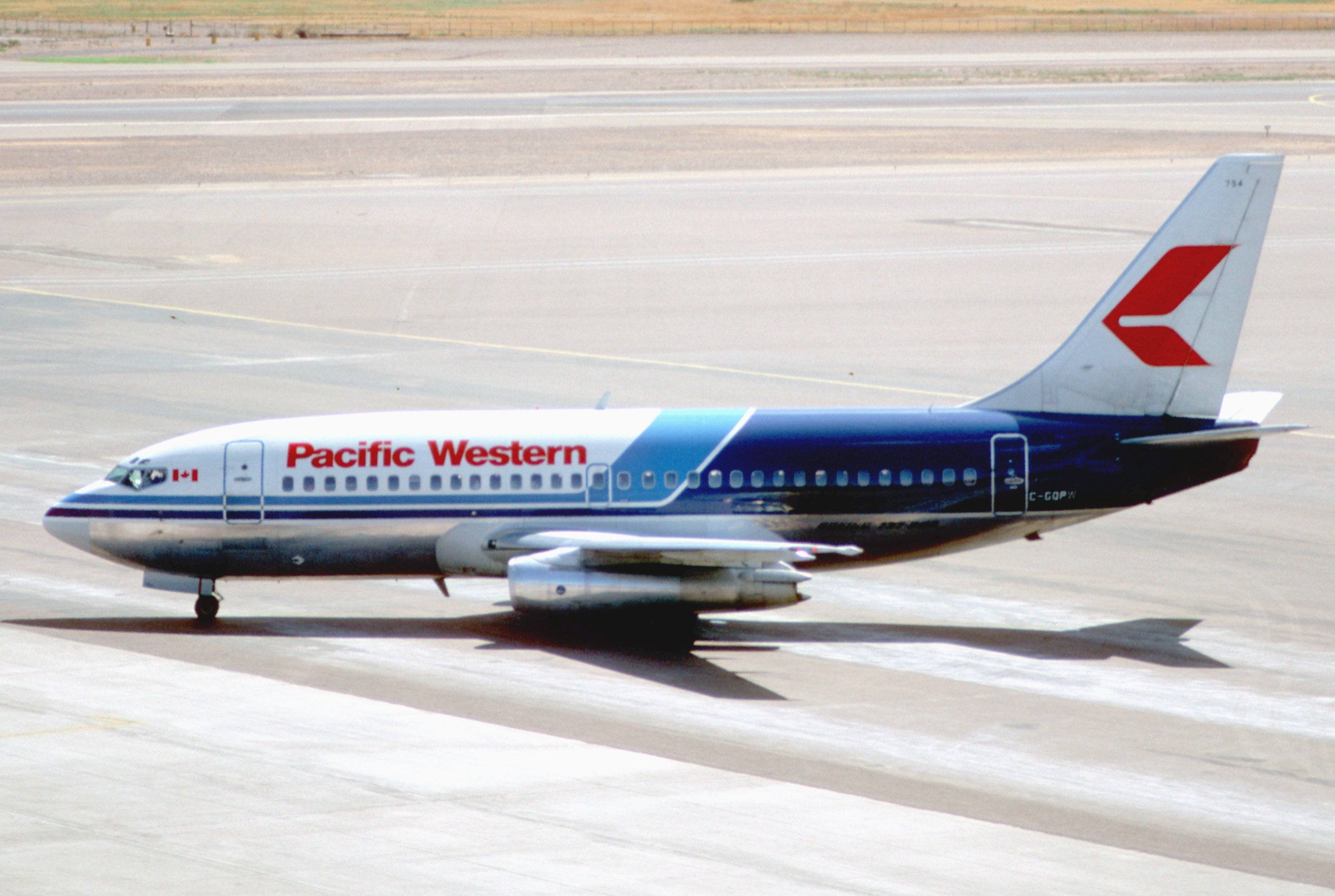 Pacific Western Airlines Boeing 737-275; C-GQPW,August 1983/ DSA